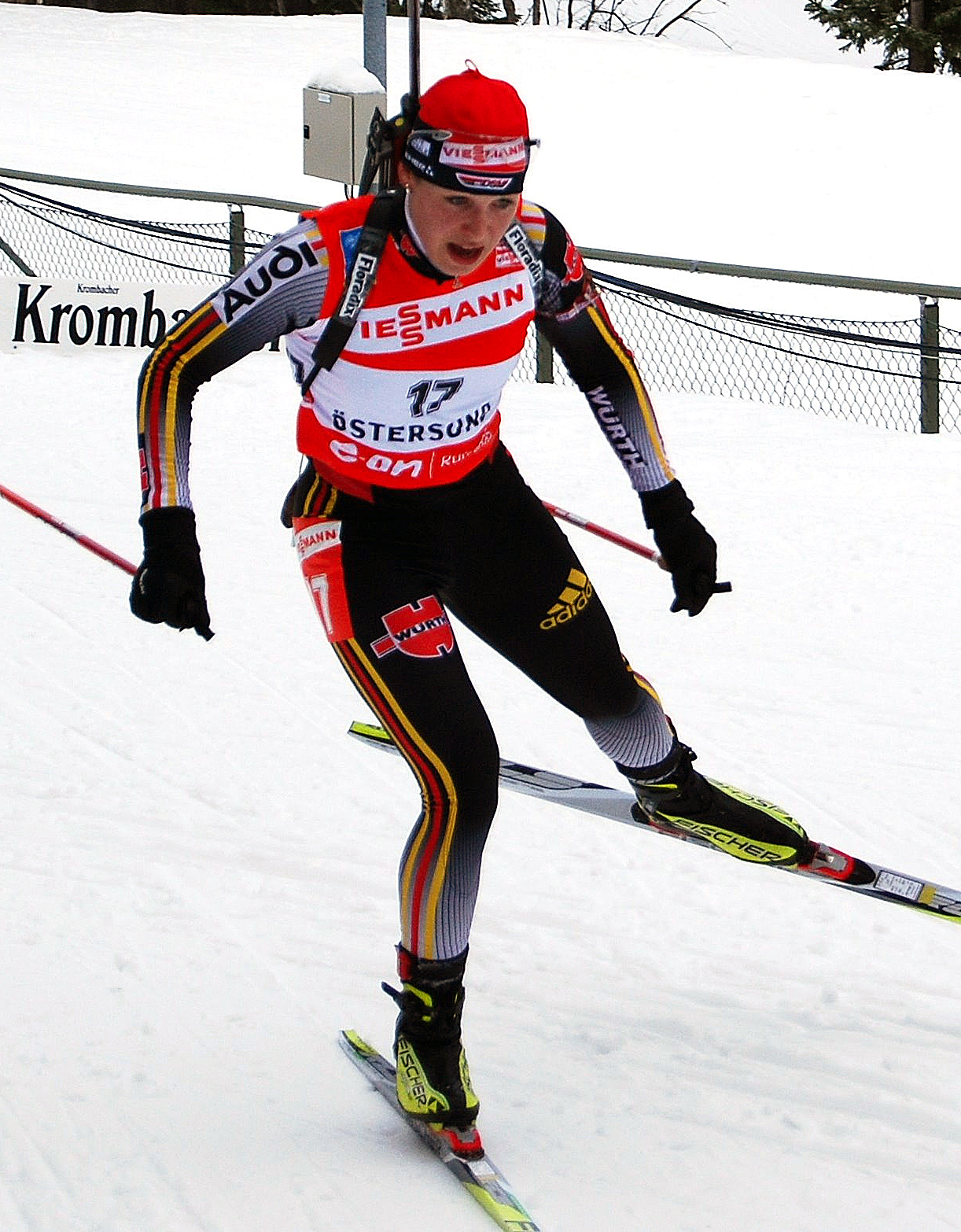 German biathlete Magdalena Neuner during the World Championships in Östersund 2008.